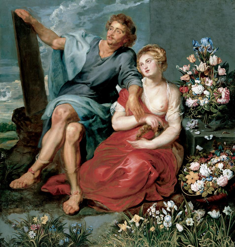 Pausias and Glycera by Peter Paul Rubens and Osias Beert the elder, c. 1612-1615, 80 x 76½ in. (203.2 x 194.3 cm), oil on canvas, John and Mable Ringling Museum of Art